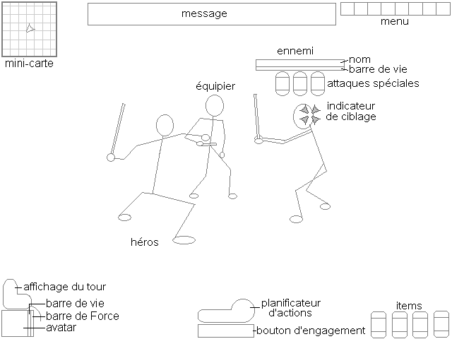 Interface of Bioware's video game Star Wars: Knights of the Old Republic